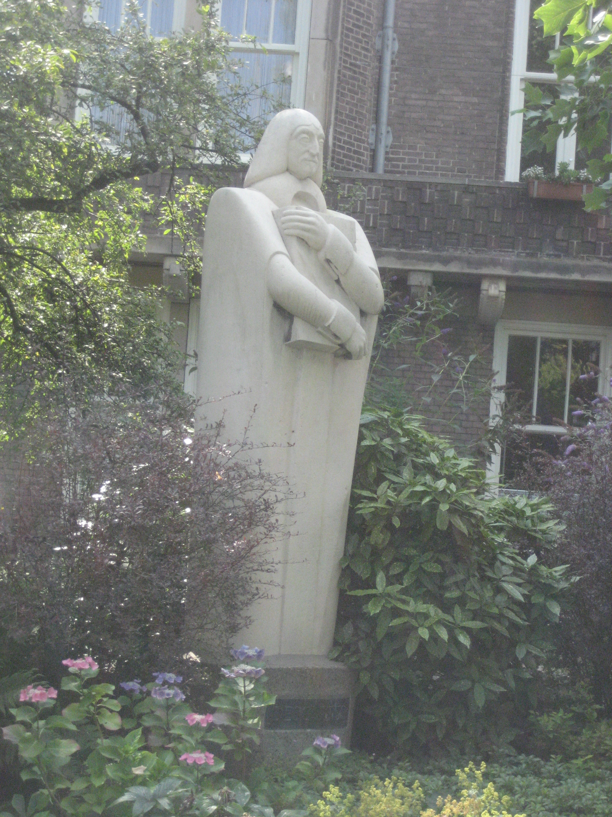 Statue of Descartes, Amsterdam (The Netherlands), cross. Gabriël Metsustraat & Nicolaas Maesstraat. Made by Jean Puiforcat, 1937.